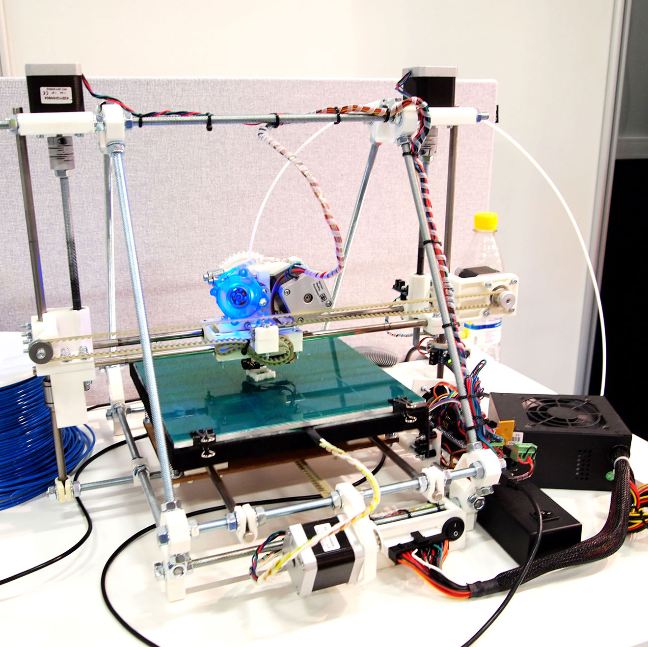 3D printer creating a small building of white plastic in FinnGraf 2013 event in Jyväskylä.